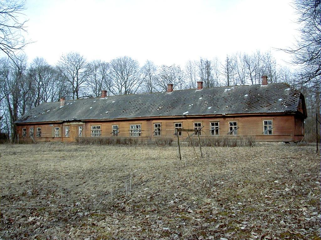 Pelecz manor house, Latvia